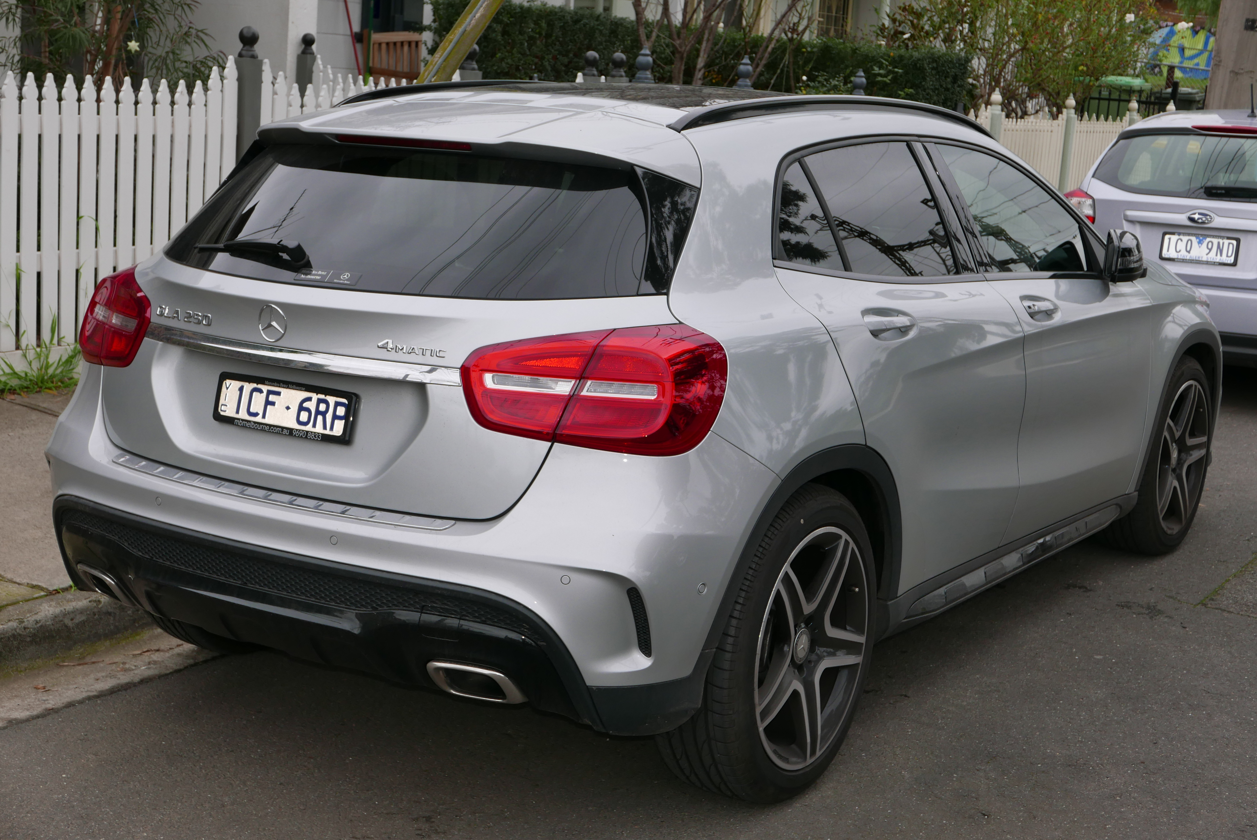 2014 Mercedes-Benz GLA 250 (X 156) 4MATIC wagon. Photographed in Northcote, Victoria, Australia. Vehicle registration enquiry resultsJurisdictionVictoriaRegistration1CF6RPChassis codeWDC1569462J078695Engine code27092030547958Compliance date2014-12Year of manufacture2014